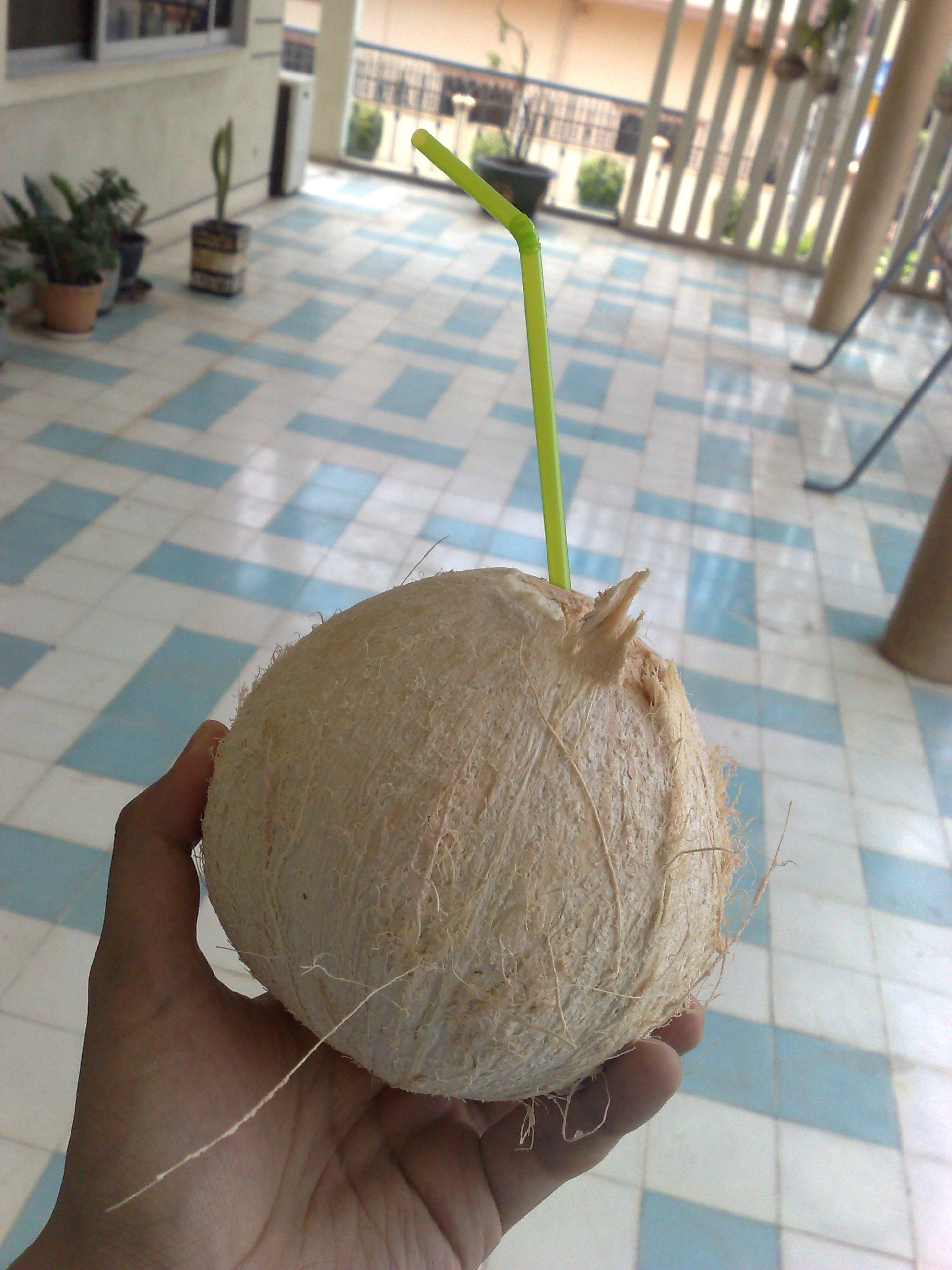 Drinking juice from a coconut